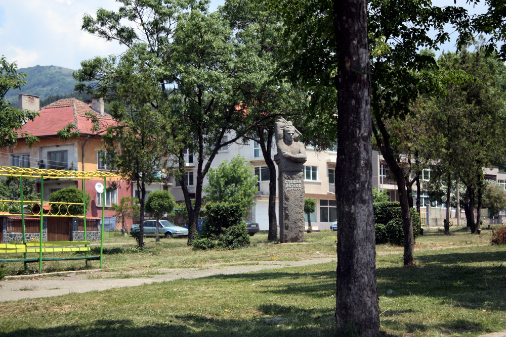 Buhovo main street